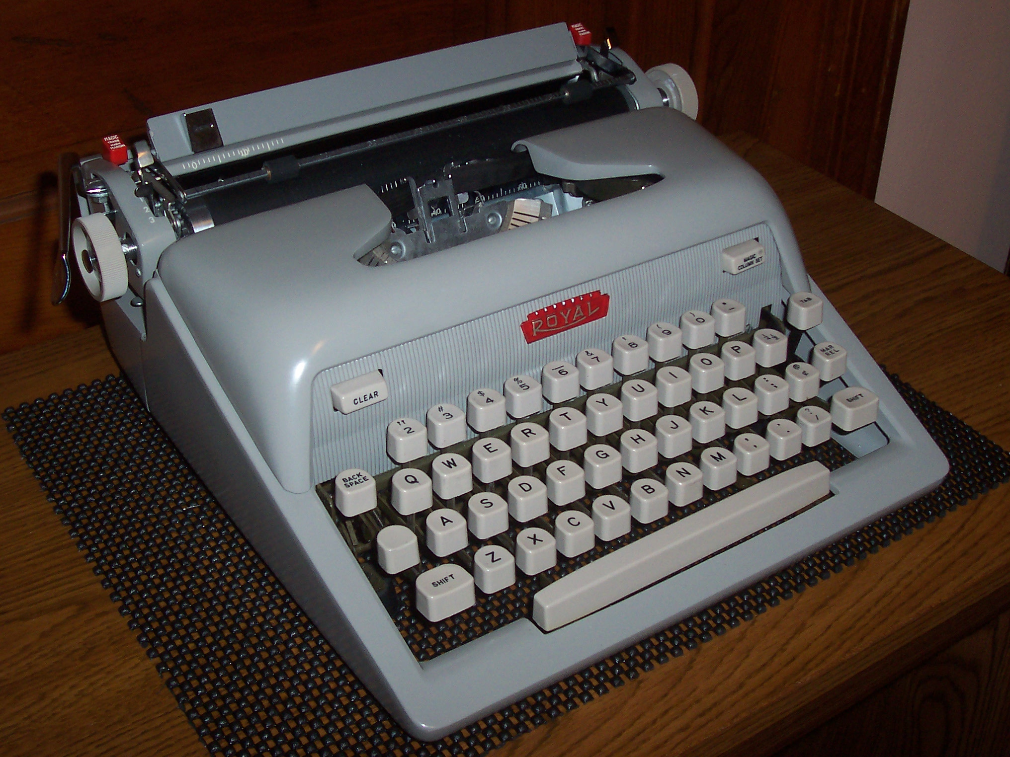 Royal Futura 600 - S/N:2B4152512